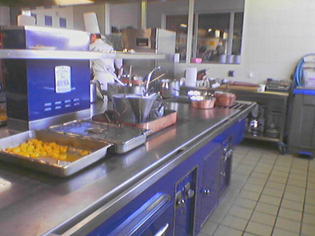 Kitchen at the École supérieure de cuisine française in Paris